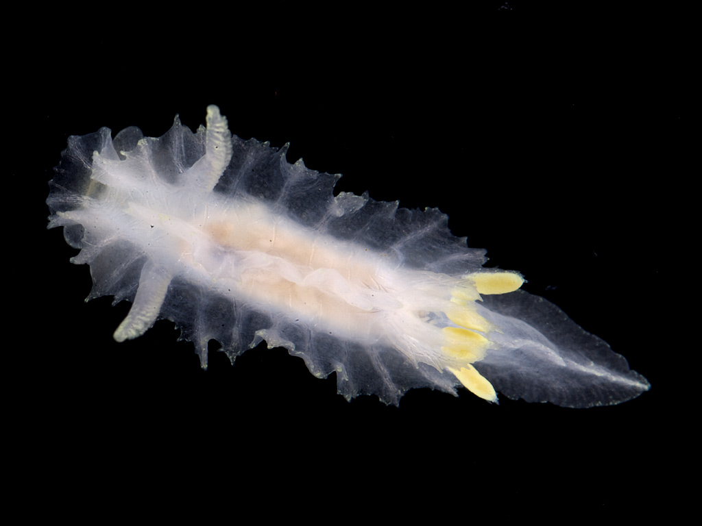 The nudibranch Lophodoris danielsseni, Gulen Dive Resort, Norway.